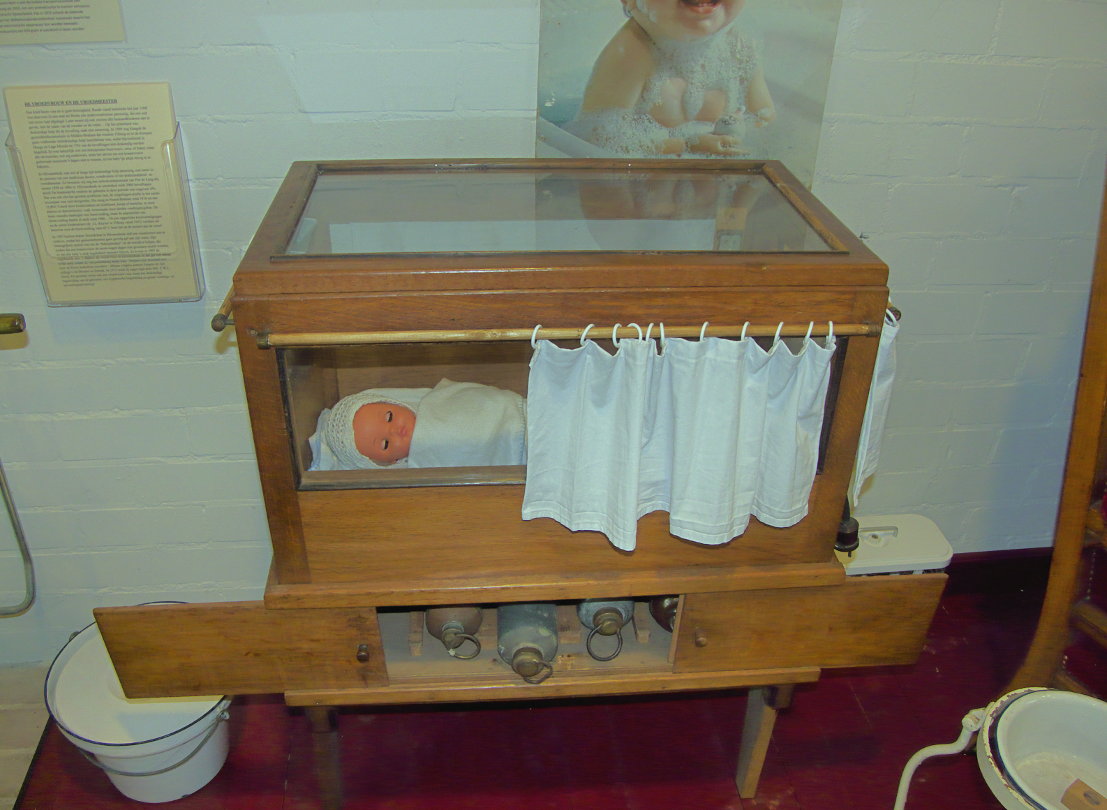 Couveuse